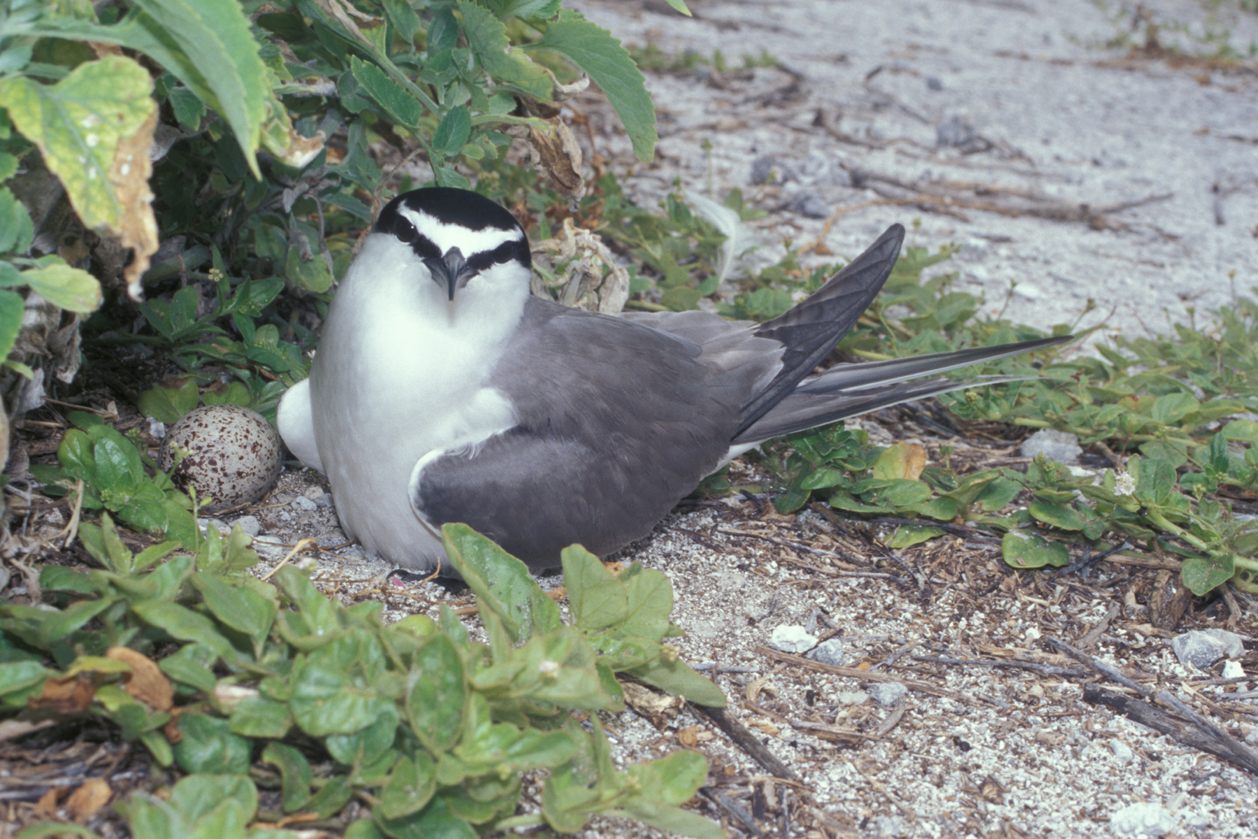 Boerhavia repens (with Sterna lunata). Location: Midway Atoll, Eastern Island